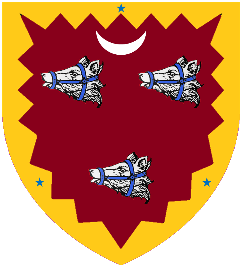 Shield of arms of The Lord Strathclyde